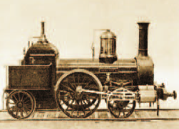 1000th steam locomotive of Borsig iron works, delivered in 1848 to the Cologne and Minden Railway